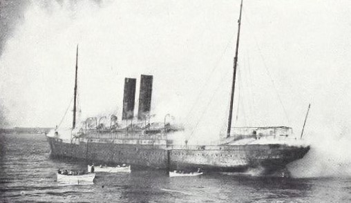 Original caption: The SS Saale on fire in the Hudson River: Hoboken Pier Disaster. Half a hundred men are imprisoned between decks. They are talking to the men in the boats but cannot be rescued owing to smallness of portholes. Photograph by S.H. Horgan.